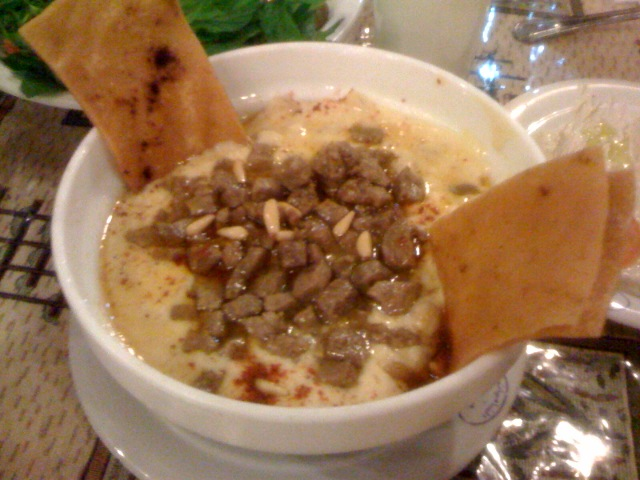 Fetté with lamb cubes and pine nuts, a specialty of Damascus.